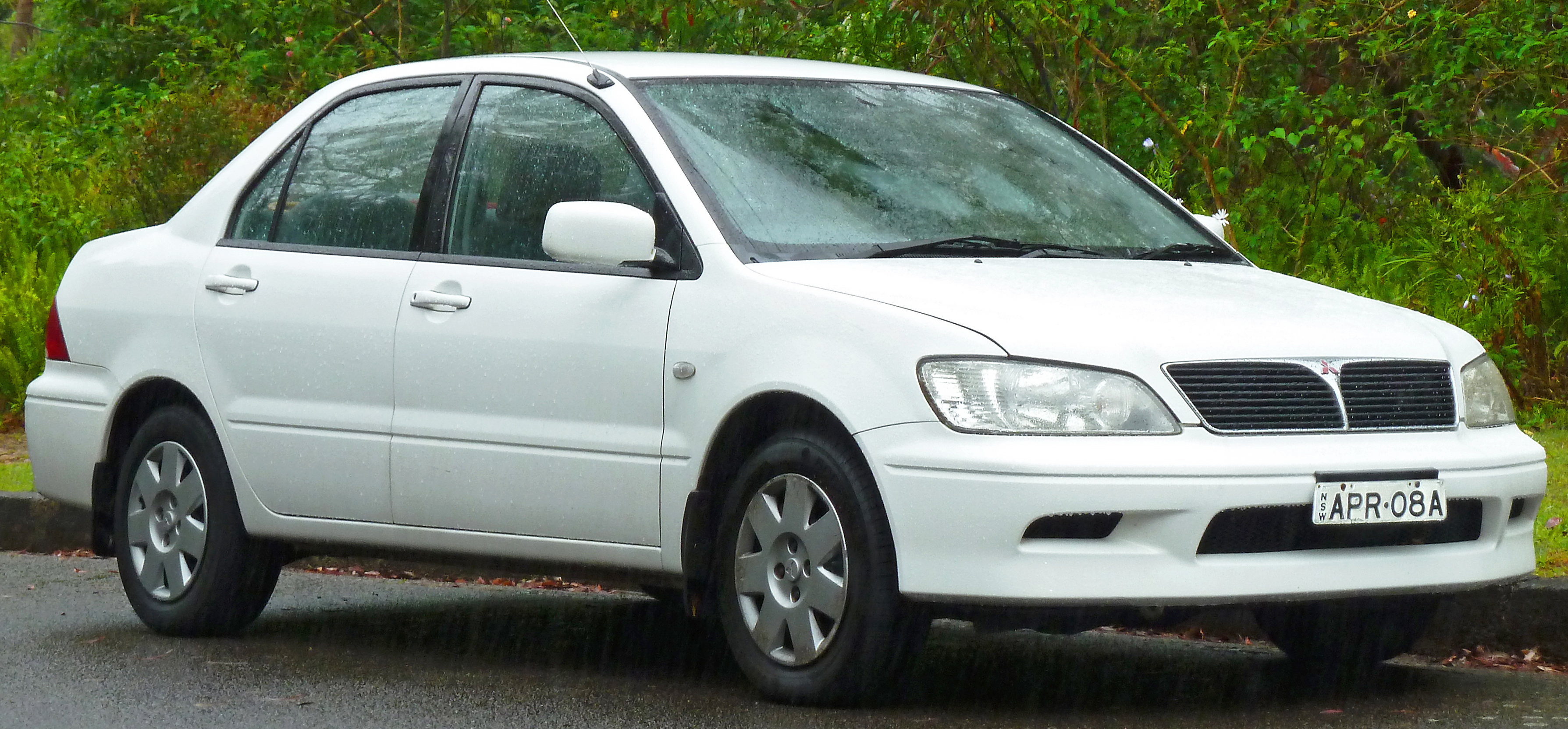 2002–2003 Mitsubishi Lancer (CG) LS sedan. Photographed in East Lindfield, New South Wales, Australia.